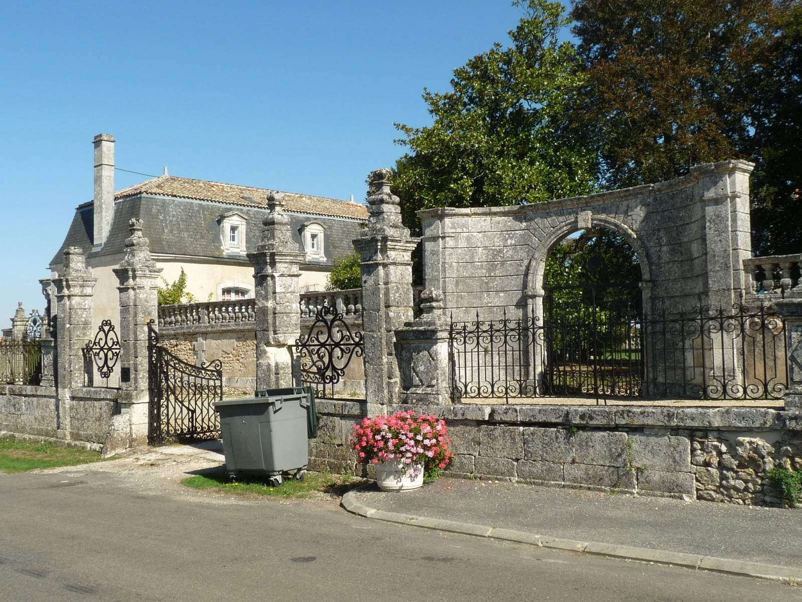 castle of Charras, Charente, SW France